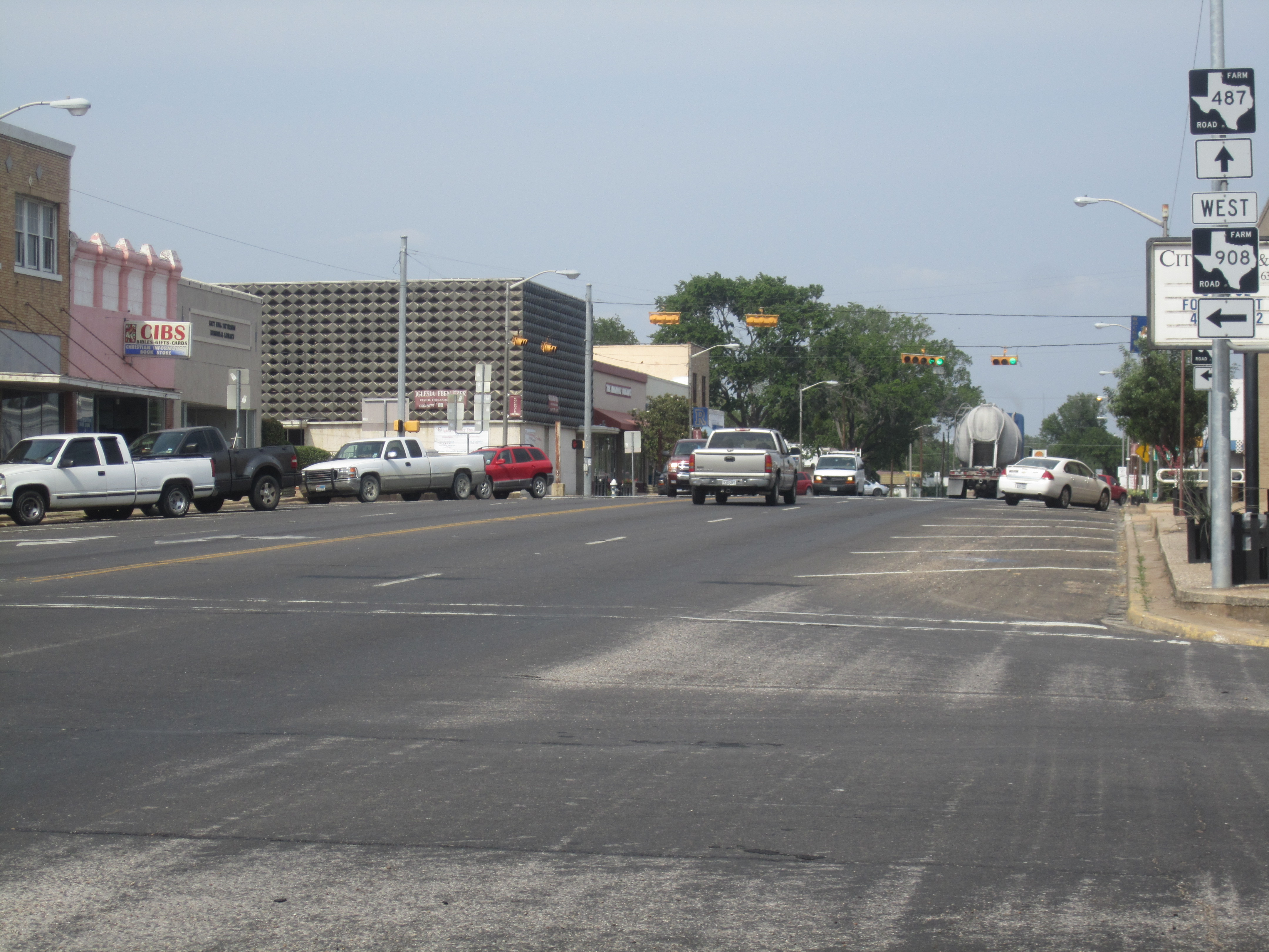 I took photo with Canon camera in Rockdale, TX: U.S. Hwy. 79 in the downtown.